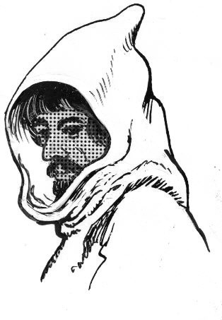 Line art drawing of a cowl.